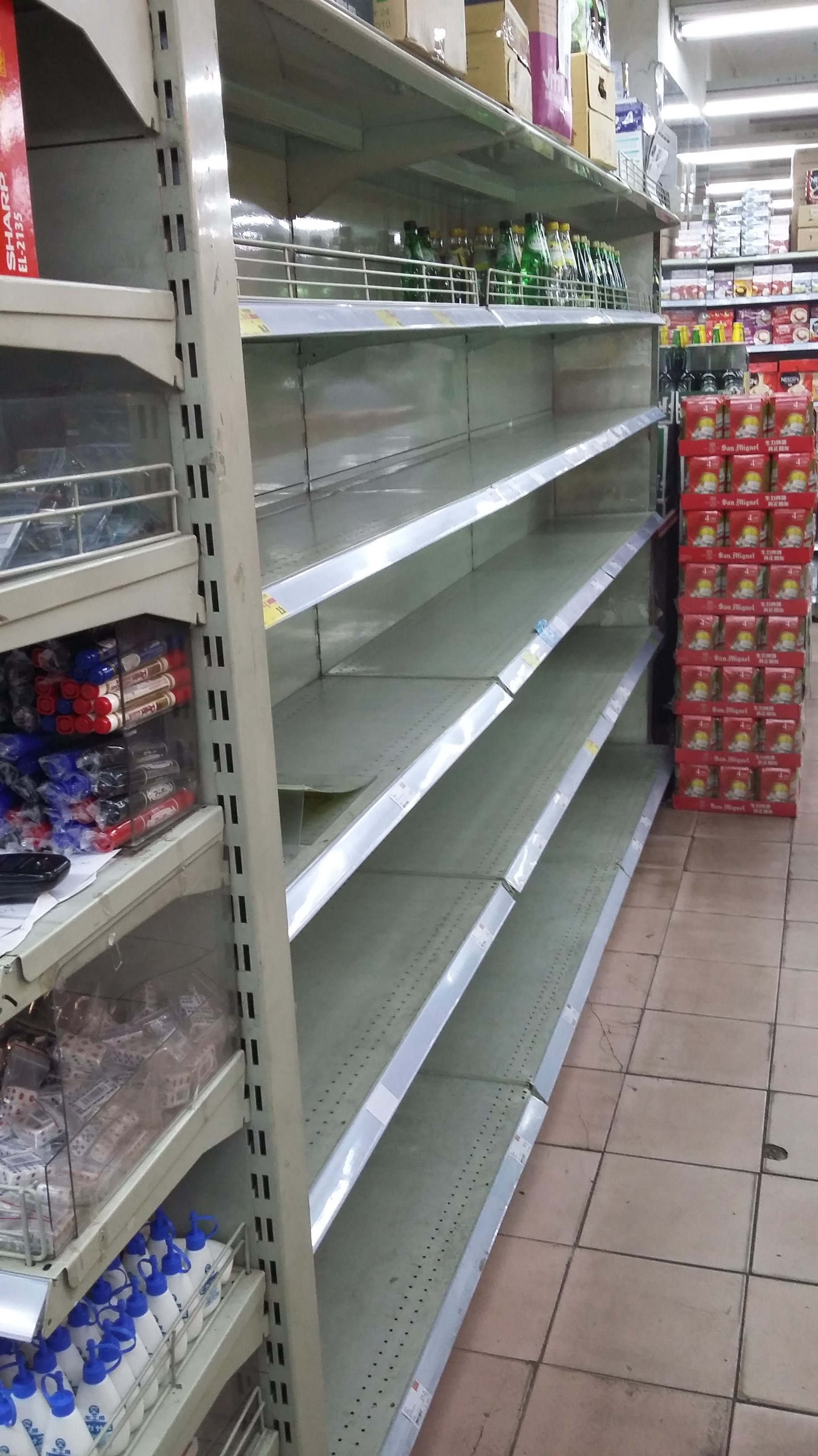 After the storm, at Freguesia da Sé.